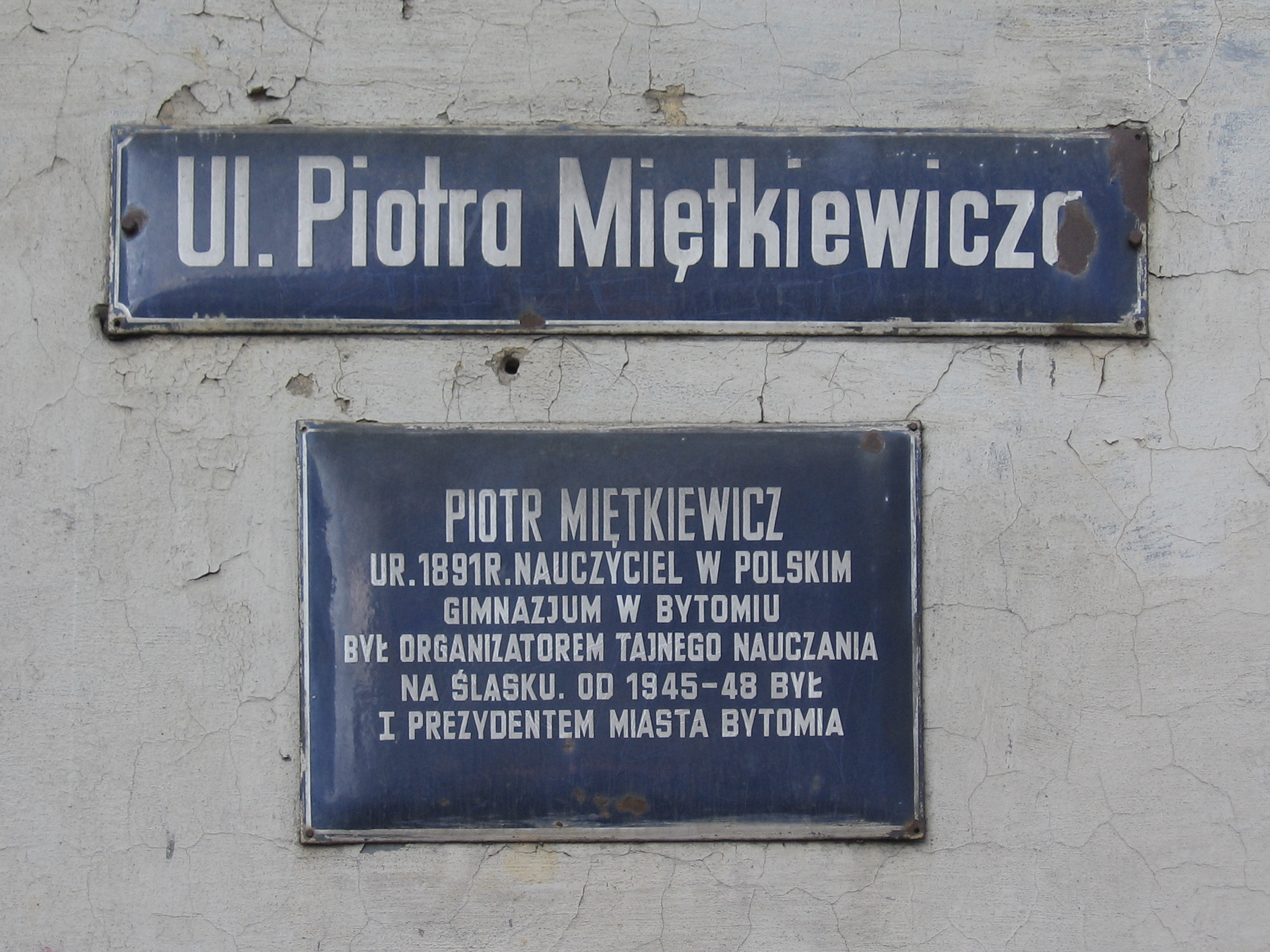 The commemorative plaque in honour of Piotr Miętkiewicz (1891–1957) , the first president of Bytom, on the wall of house in Bytom, P. Miętkiewicza 1 street, Poland.